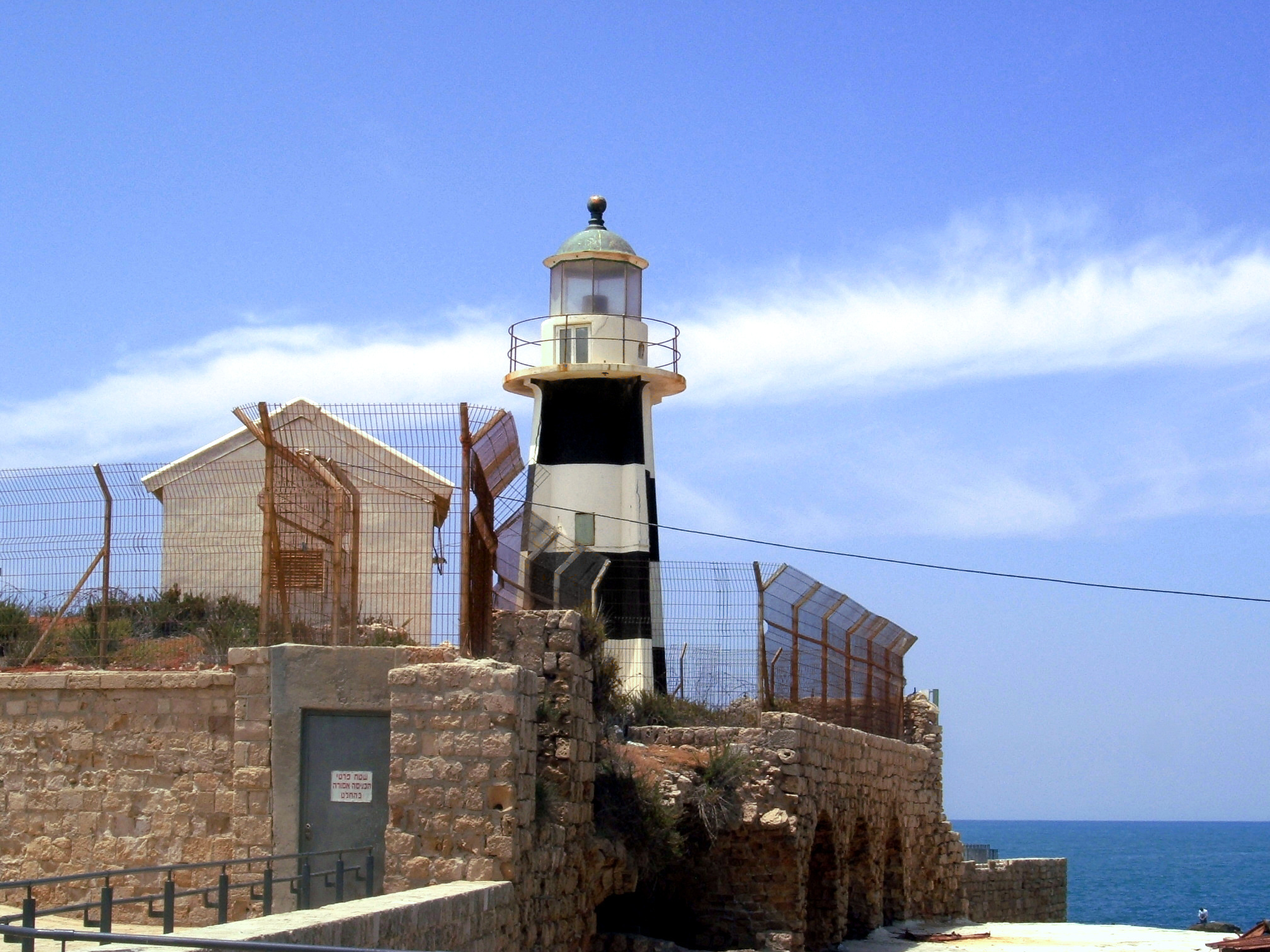 lighthouse in acre (Israel) המגדלור בנמל עכו